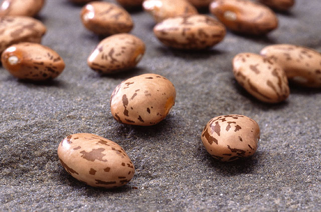 A closeup look at Burke, the latest pinto bean from ARS and university plant scientists. It resists a host of harmful fungi and viruses that can otherwise cheat growers of a bountiful harvest. Photo by Scott Bauer.[1]